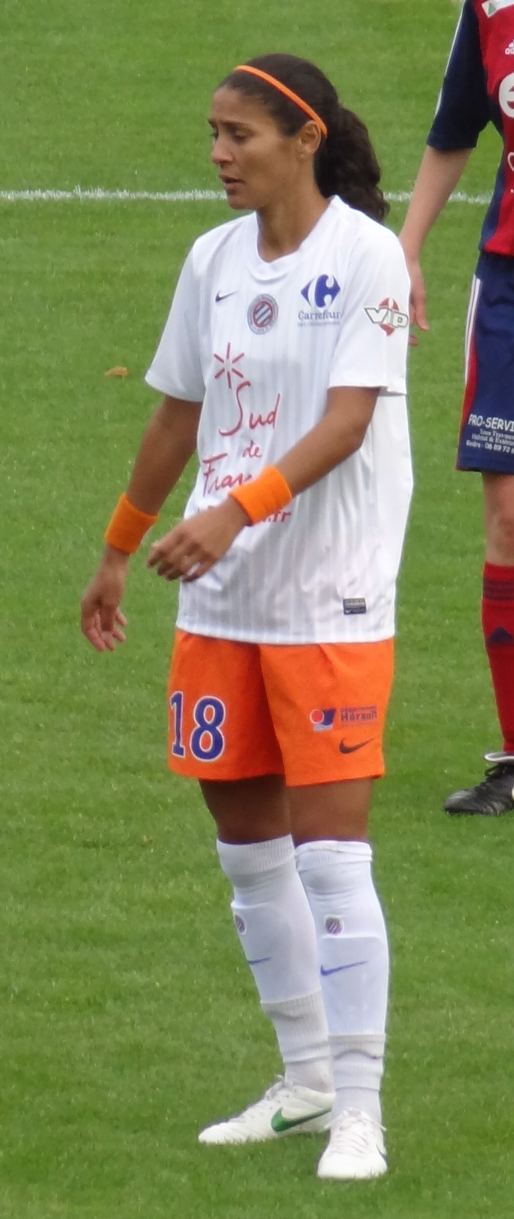 Hoda Lattaf (Montpellier), women soccer